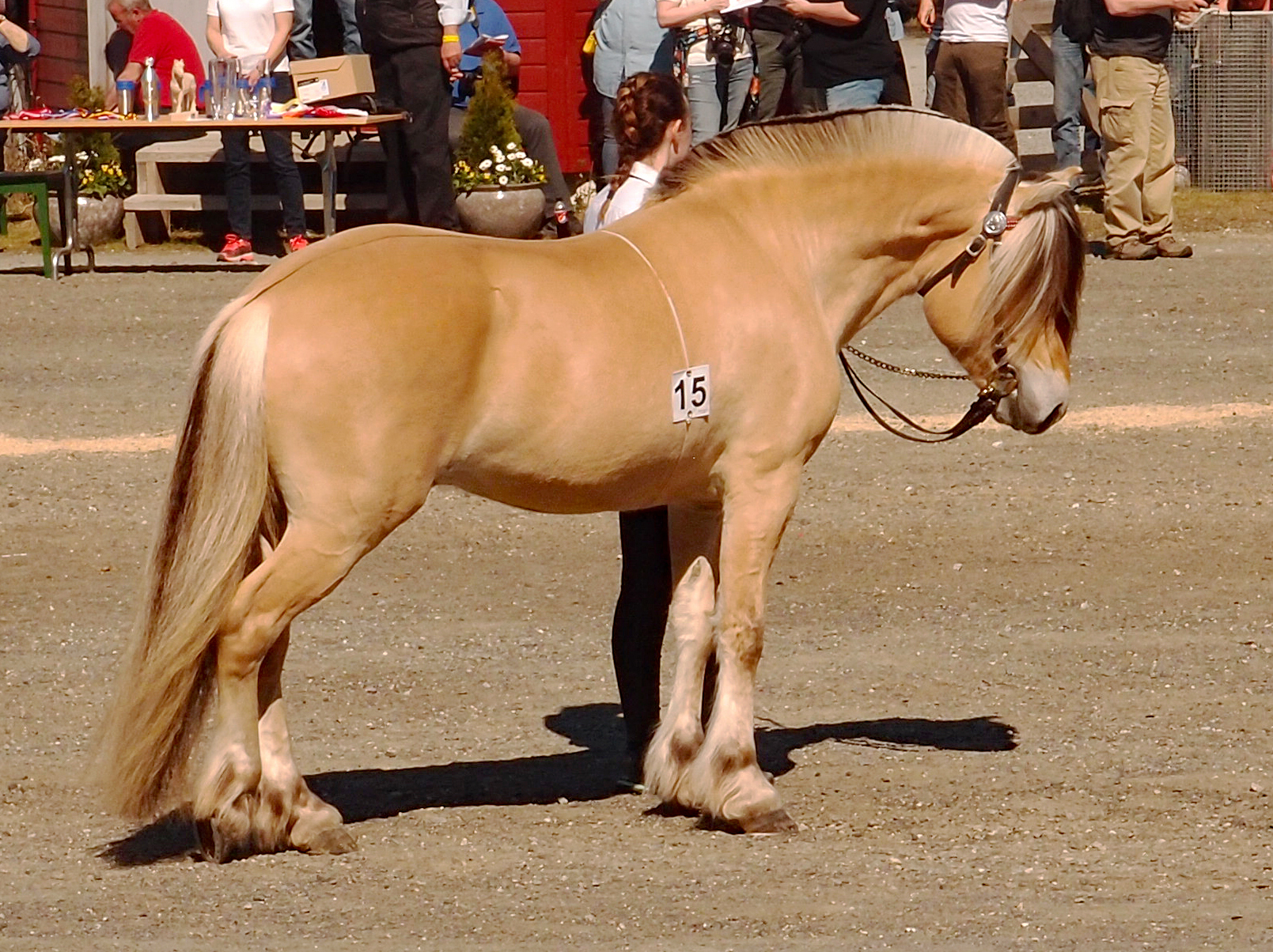 Norwegian fjord horse, stallion, at the at the annual exhibition in Nordfjordeid on 6 May 2017.